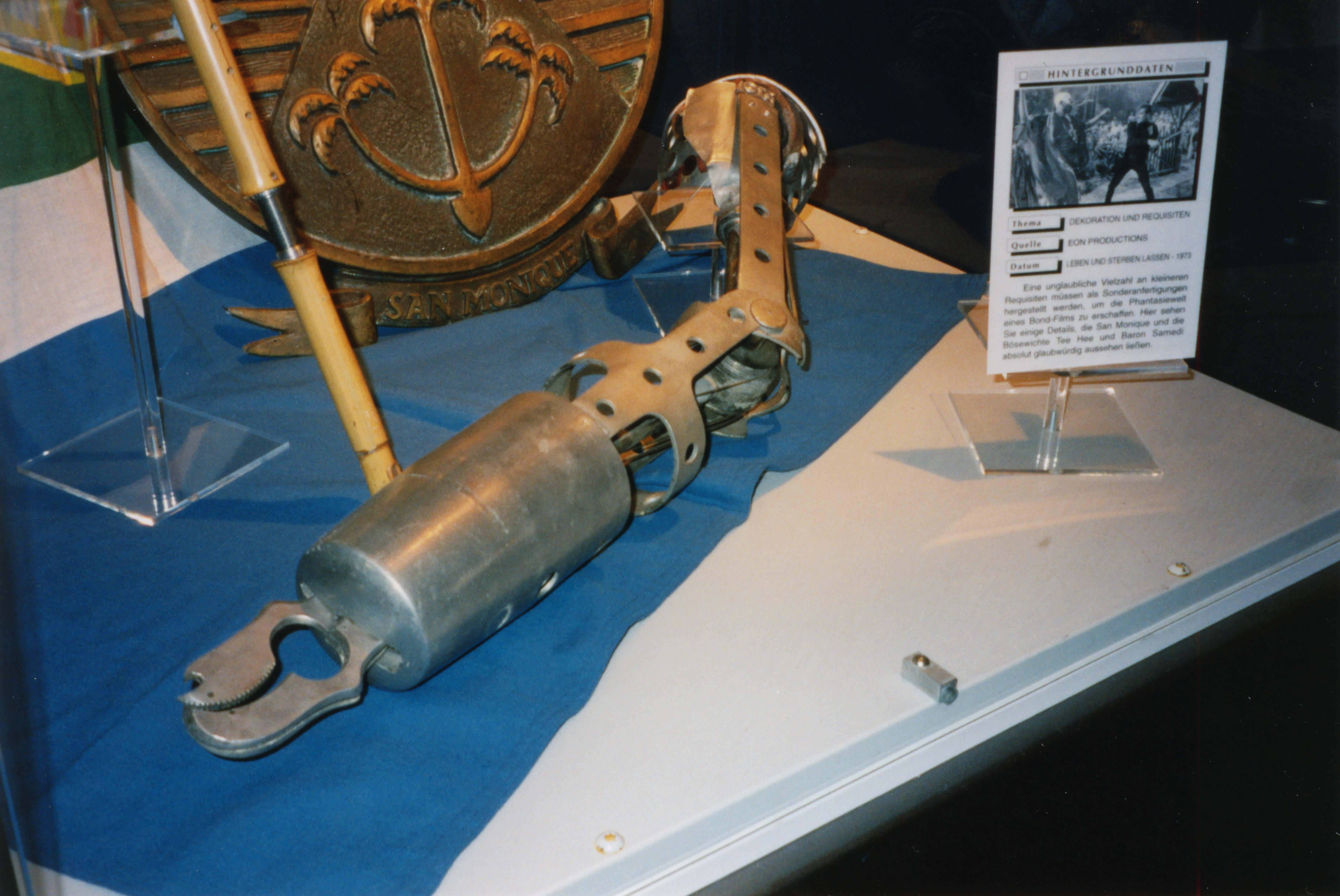 Arm prosthesis from villain "Tee Hee" from 1973 James Bond movie "Live and Let Die", exhibition Aug,1998